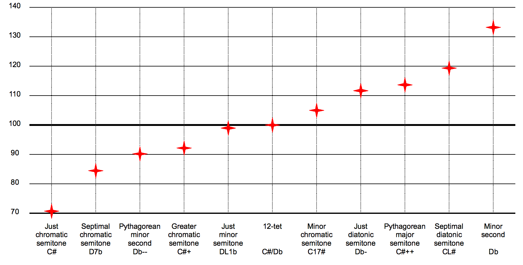 Comparison of notes derived from and near one minor second (including inverted major sevenths). C♯ = 25 : 24 = 70.67 D♭ = 21 : 20 = 84.47 D♭-- = 256 : 243 = 90.22 C♯+ = 135 : 128 = 92.18 D- = 18 : 17 = 98.95 C♯ = D♭ = 100 C♯ = 17 : 16 = 104.96 D♭- = 16 : 15 = 111.73 C♯++ = 2187 : 2048 = 113.69 C♯ = 15 : 14 = 119.44 D♭ = 27 : 25 = 133.24